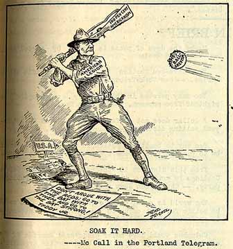 1919 U.S. newspaper cartoon: The American Legion prepares to hit a ball labeled "Bolshevism" with a rifle butt labeled "100 per cent Americanism." He stands above a quote from Theodore Roosevelt Jr.: "Don't argue with the reds; go to bat with them and go to the bat strong!"